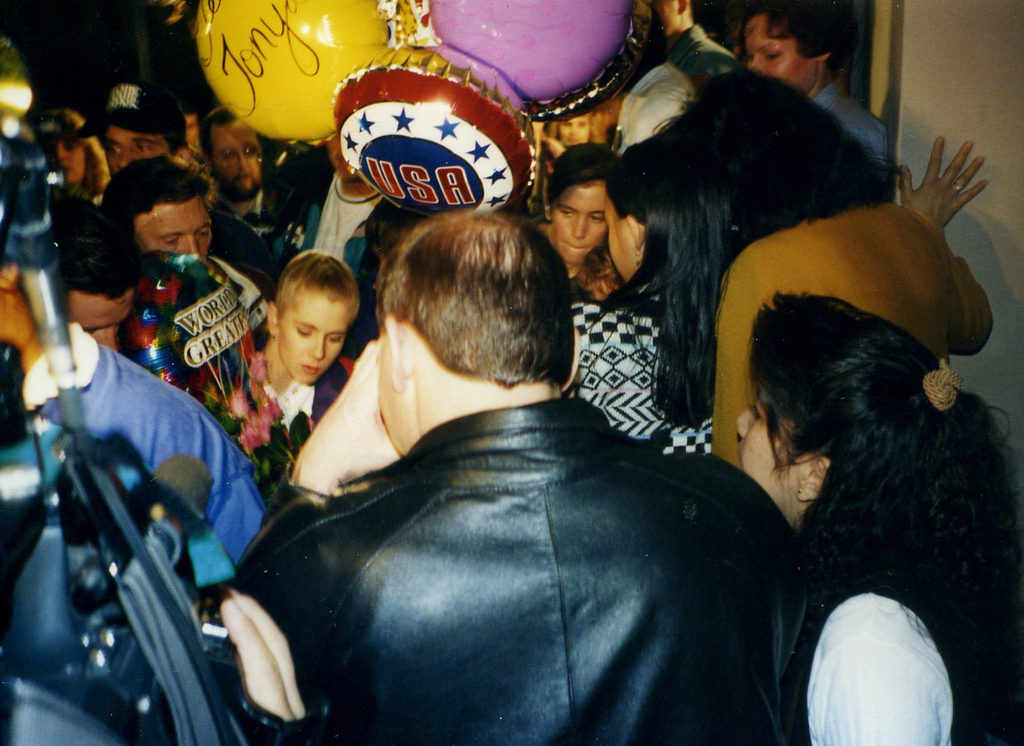 Tonya Harding at the Portland International Airport returning from the 1994 Olympic Games in Norway